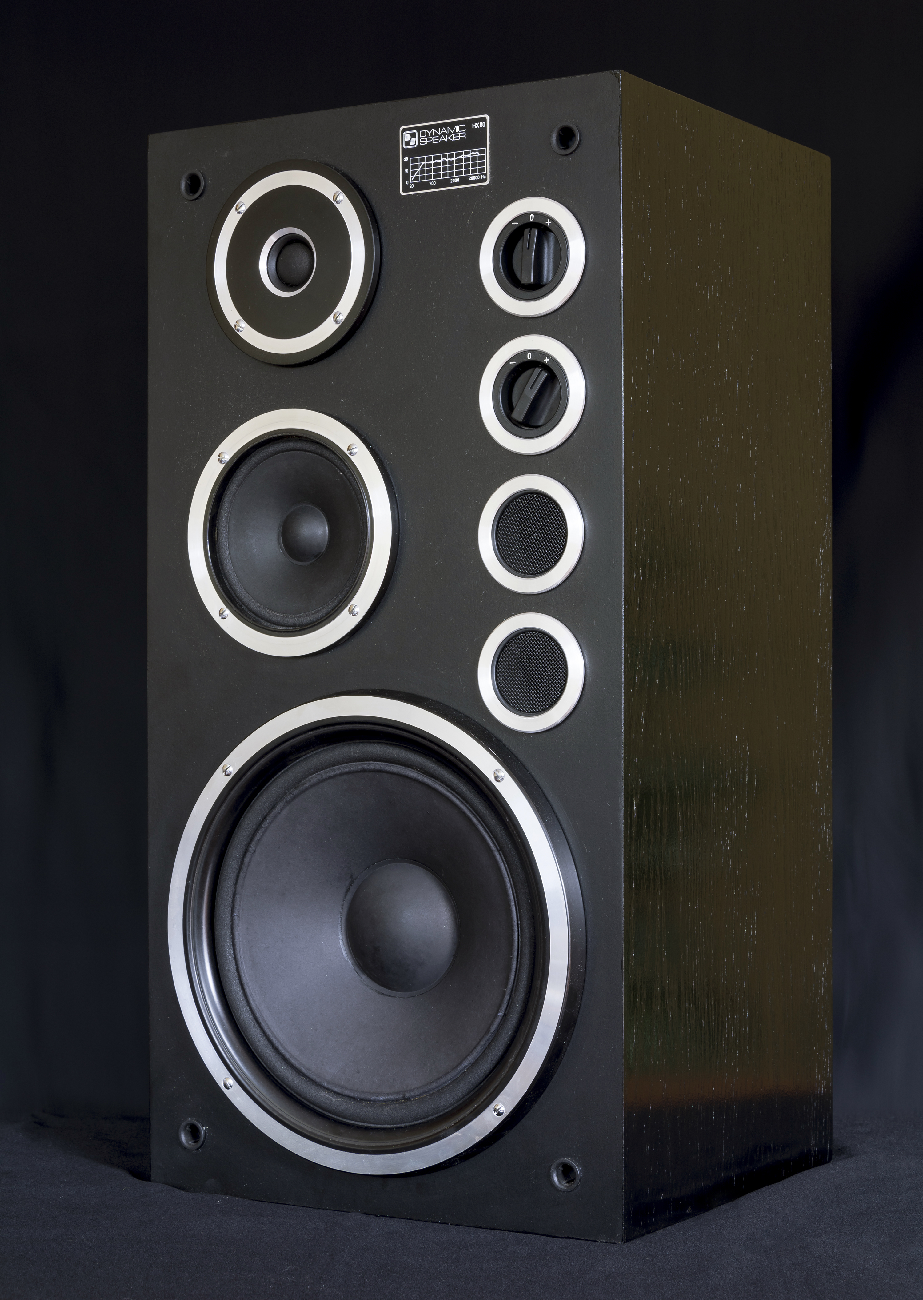 Hi-Fi loudspeaker ZgB 70-8-61 "Altus 110"